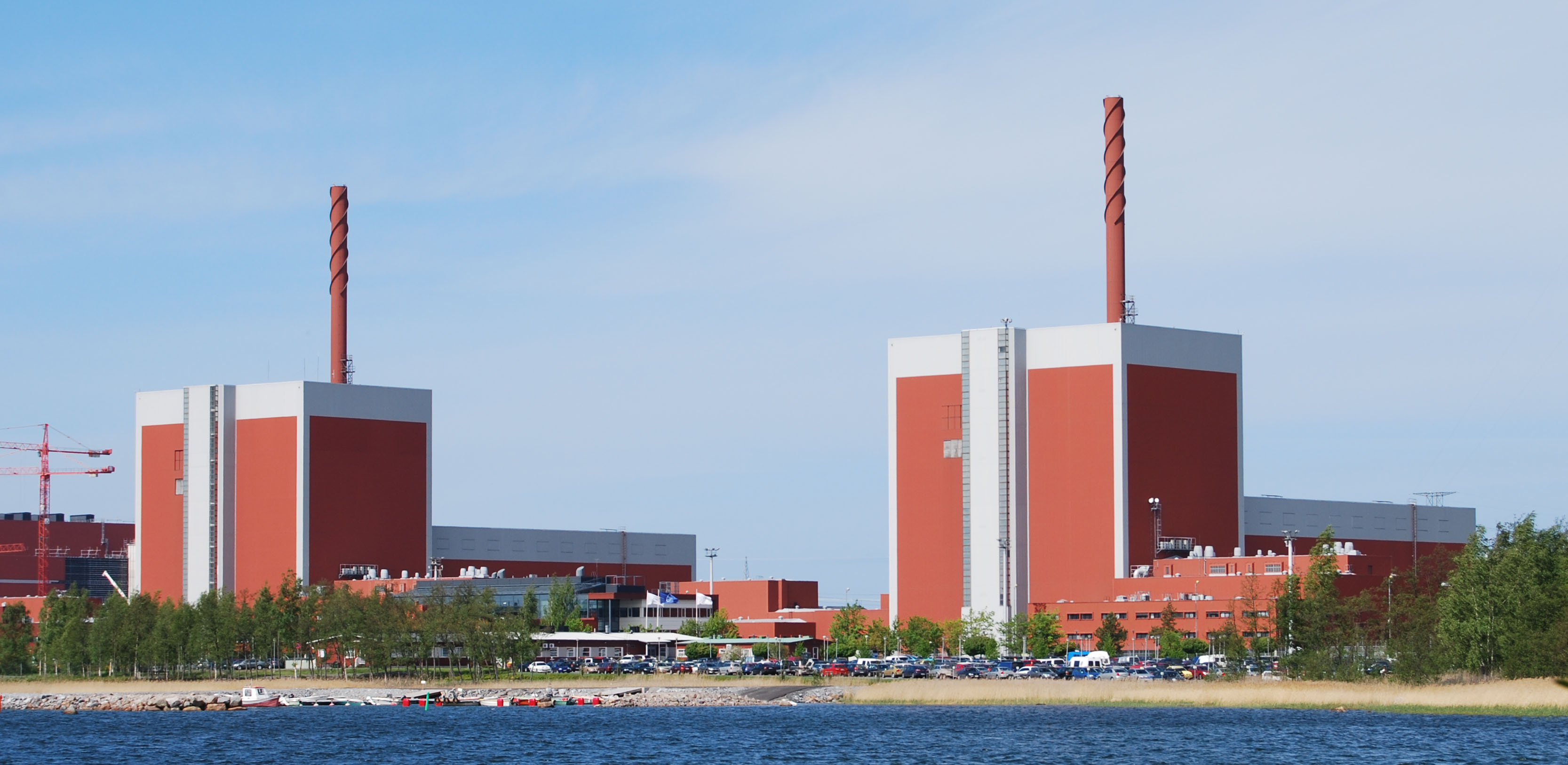 Olkiluoto Nuclear Power Plants 1 & 2 (BWRs with 860 MWe each) in Eurajoki, Finland.